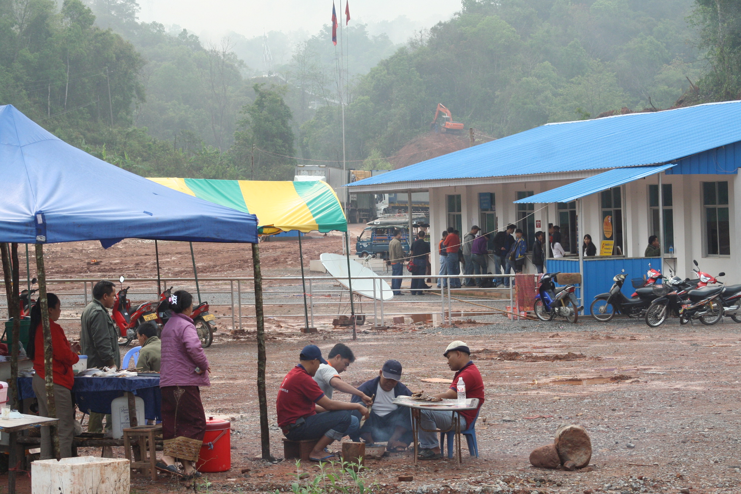 Immigration office, Borten. Border between Laos and China